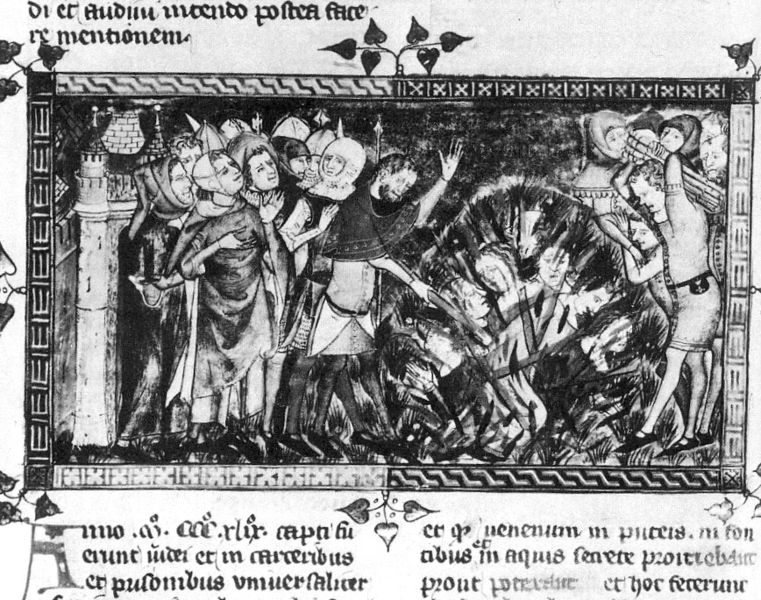 Brulés Jews during the Black Death in 1349